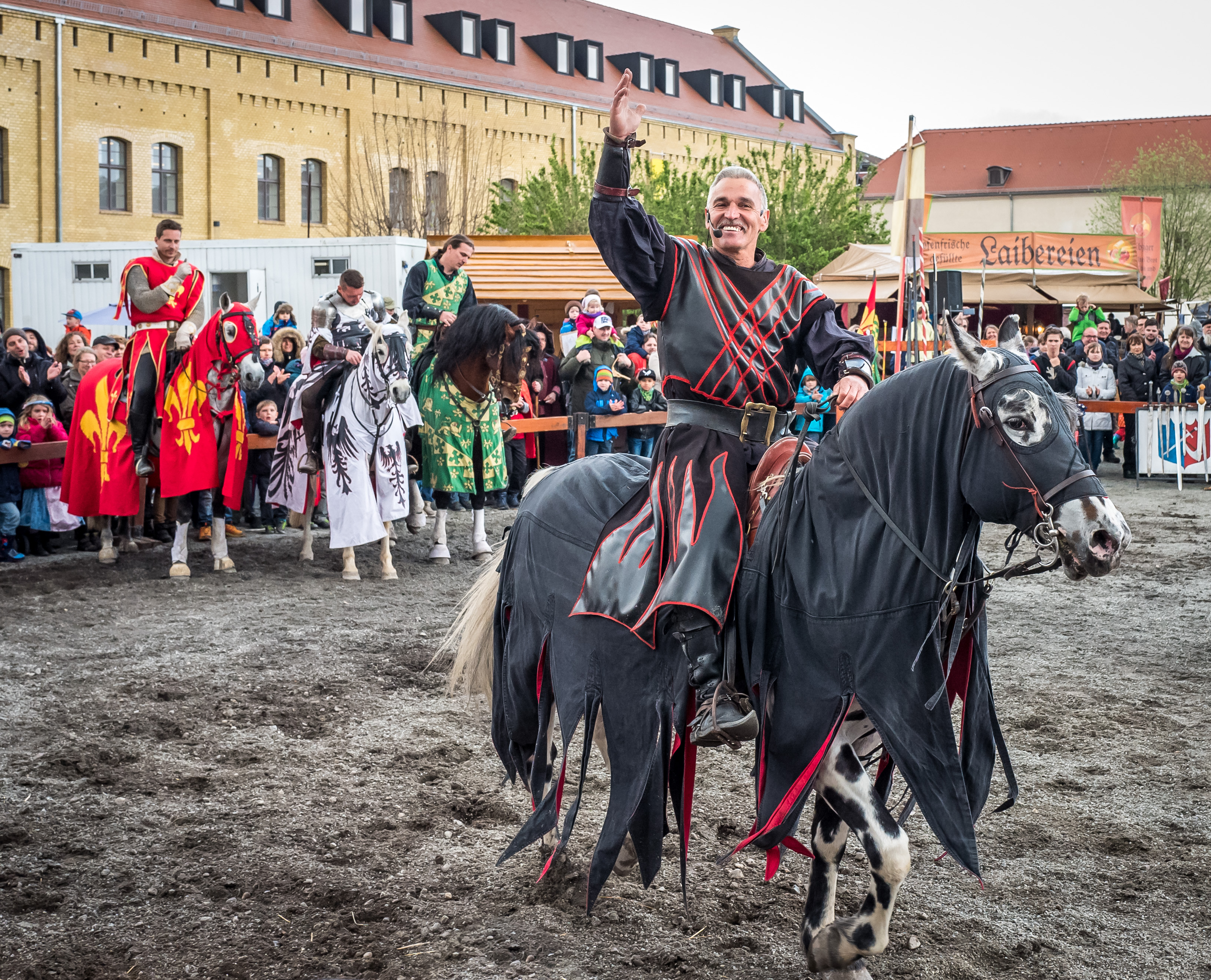 Knights tournament in Spandauer Zitadelle / Berlin, Germany